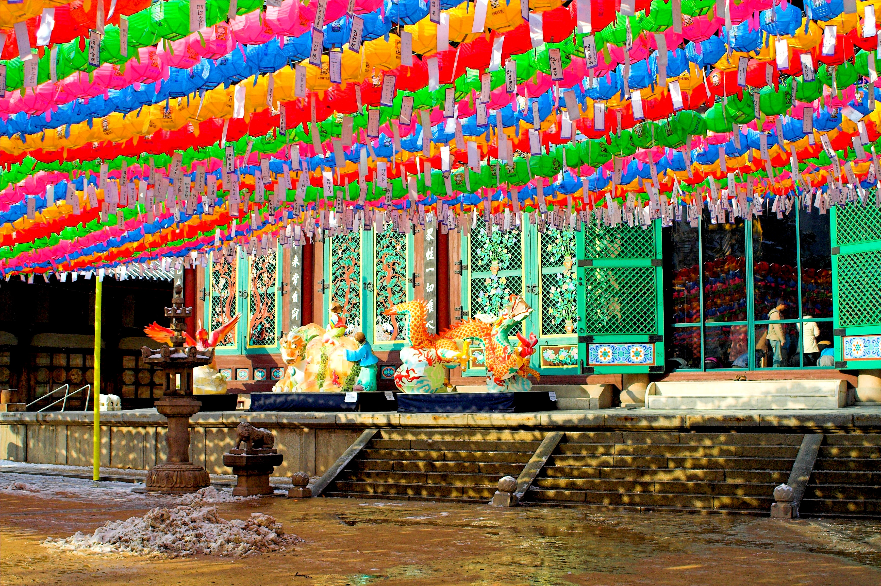 Jogyesa whichi is one of the representative Buddhist temple in Seoul, Korea in winter solistice